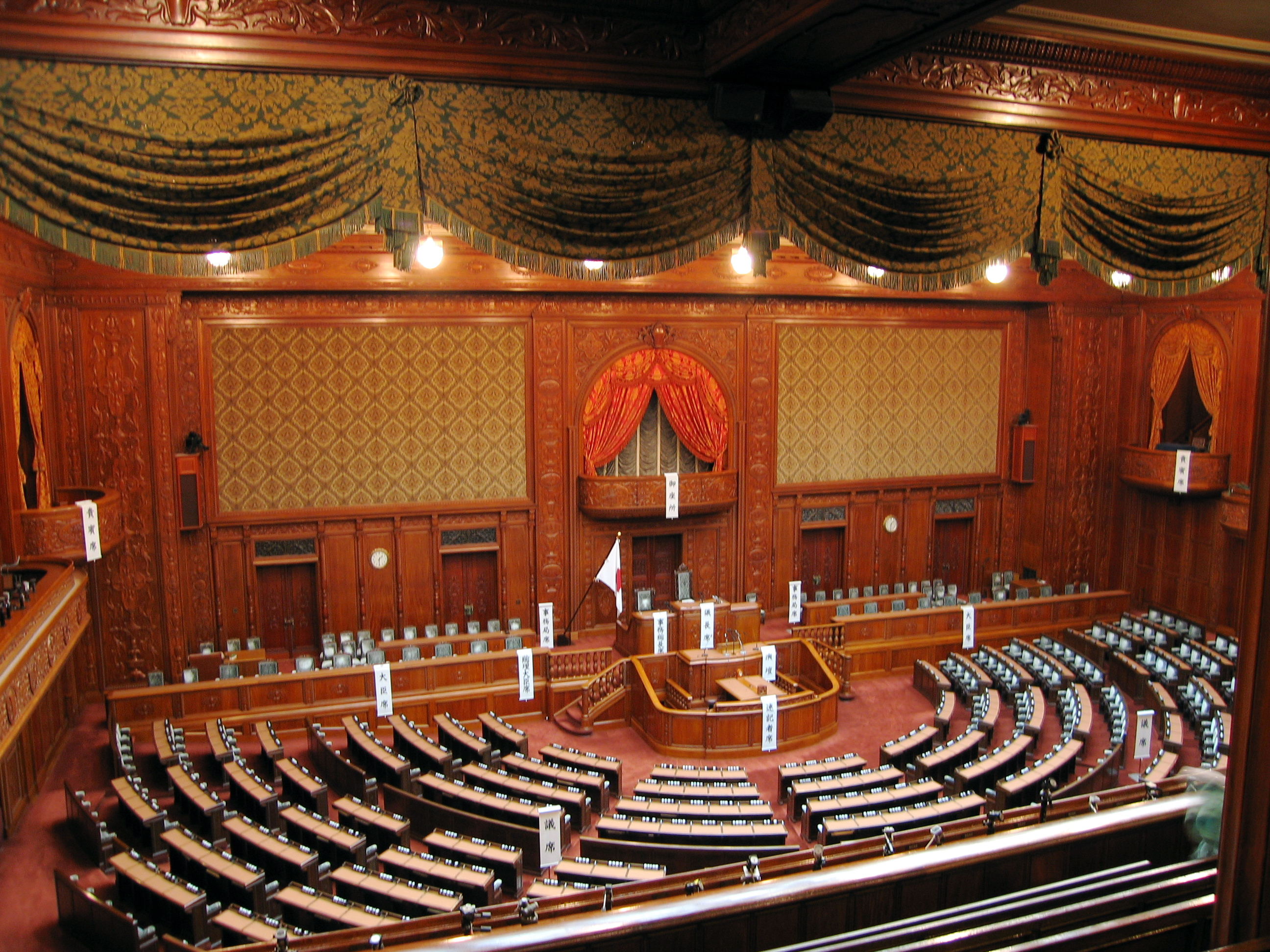 The National Diet Building of Japan